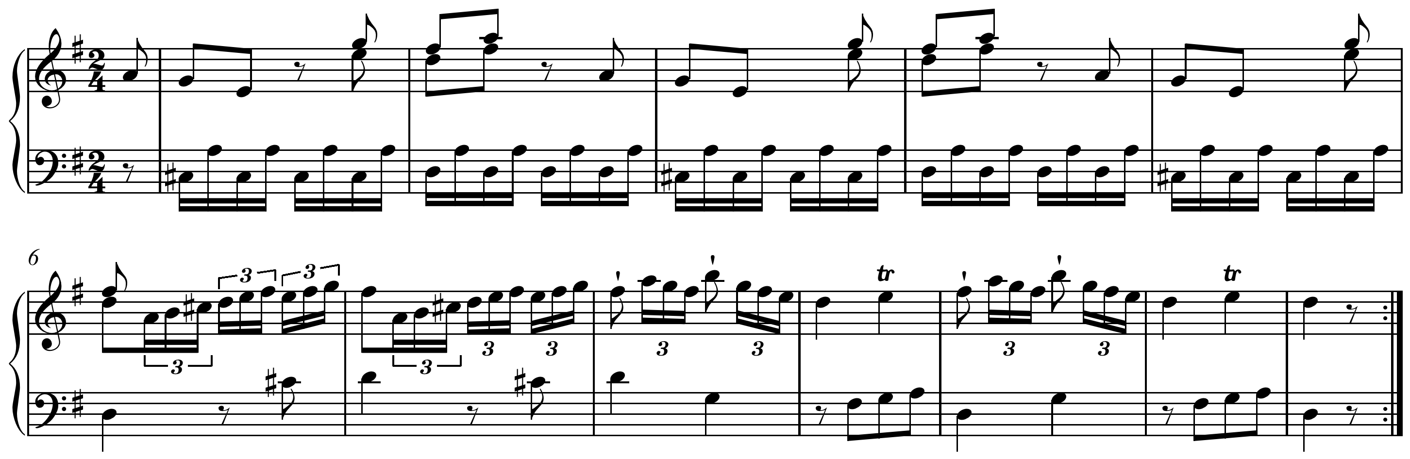 End of second subject and Codetta (D major) of Haydn's Sonata in G Major, Hob. XVI: G1, I, mm. 17–28. Created by Hyacinth (talk) 16:15, 20 June 2010 using Sibelius 5.